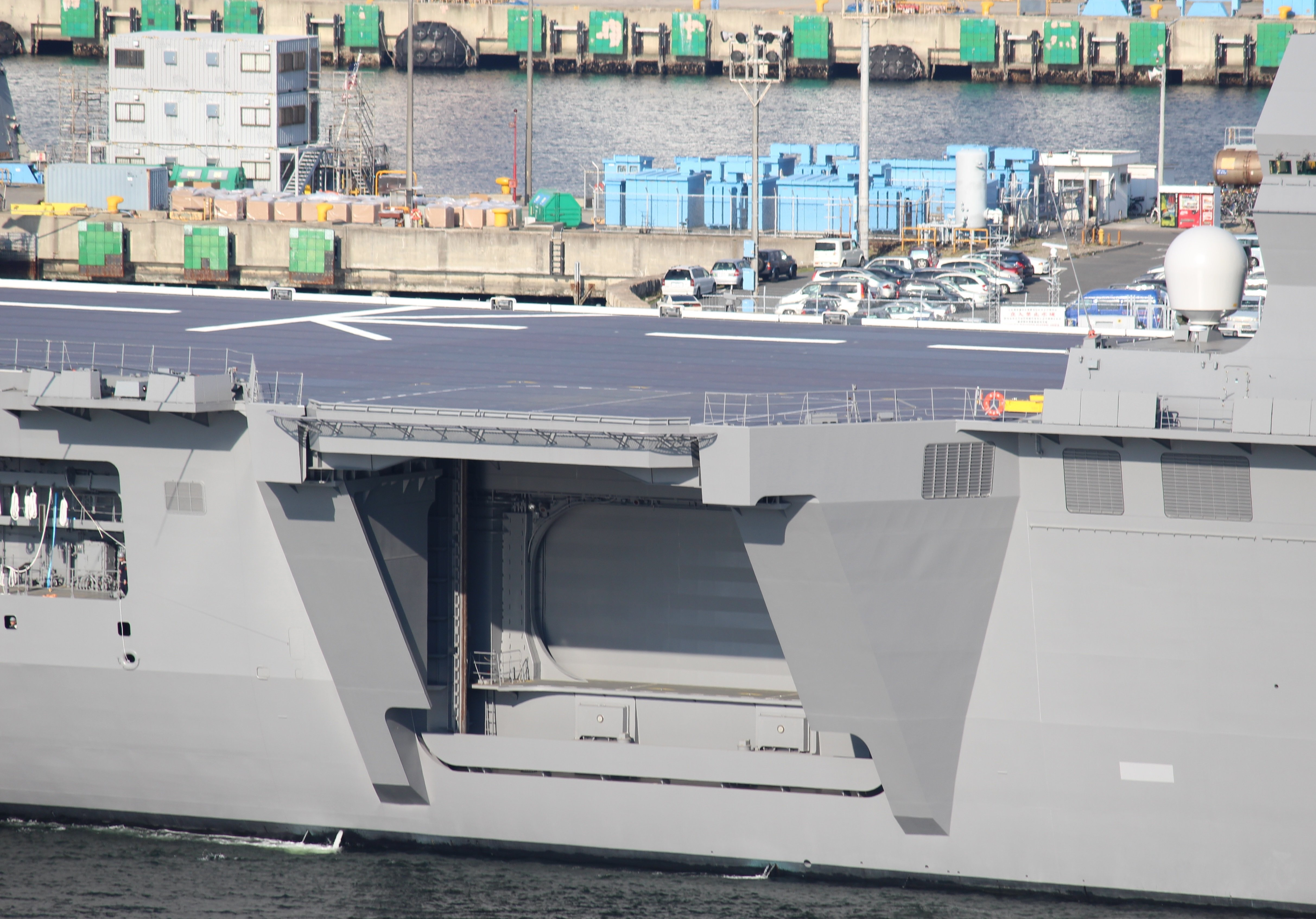 JS Izumo(DDH-183)